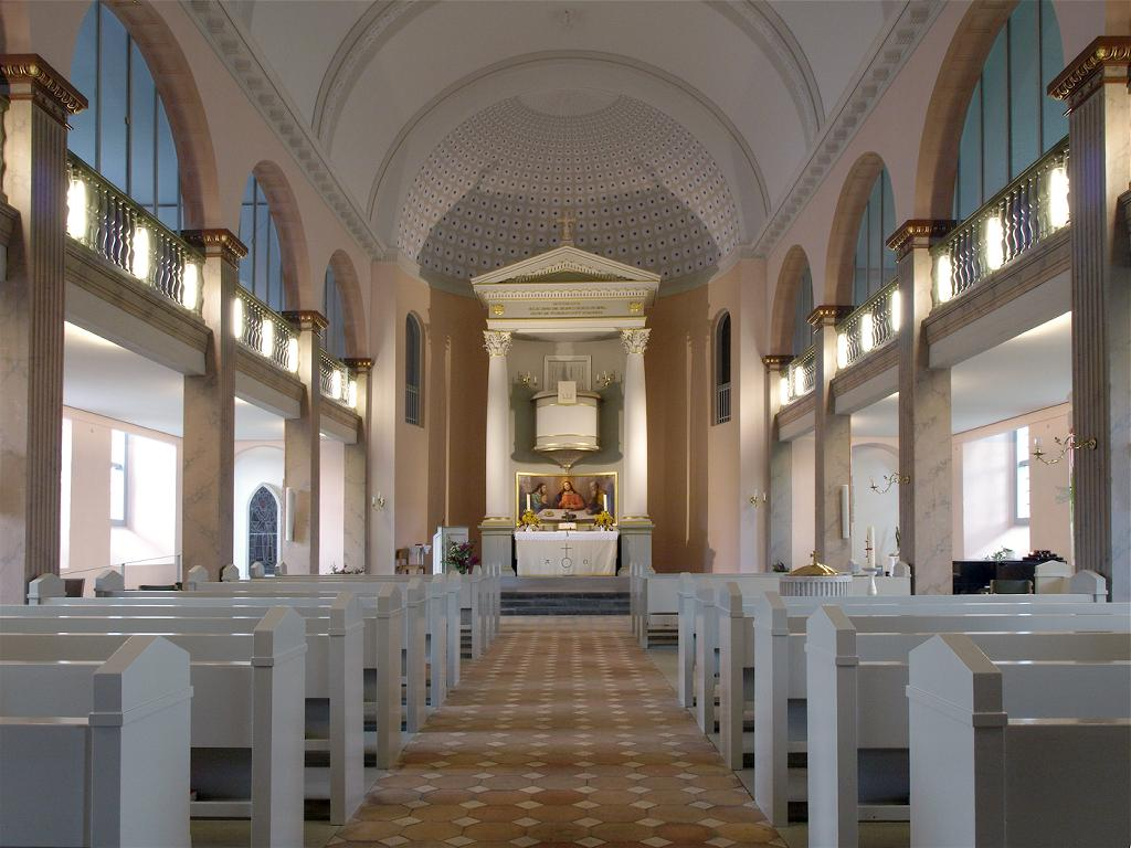 Krempe (Schleswig-Holstein, Germany),Church interior , photo 2009